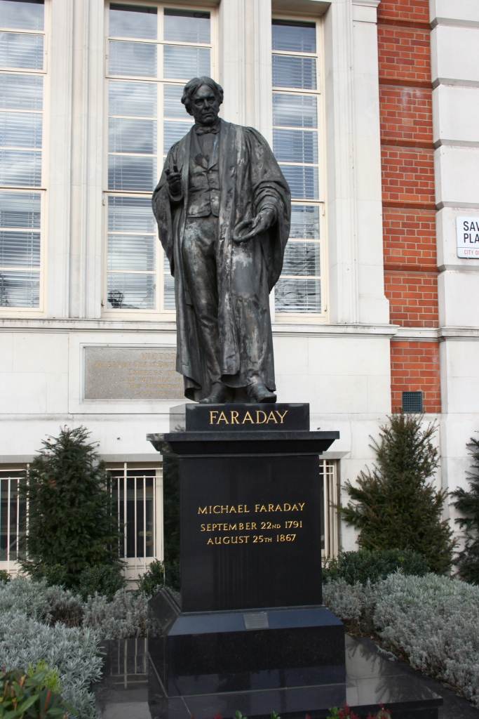 Statue of Michael Faraday outside the headquarters of the Institution of Engineering and Technology in Savoy Place, London